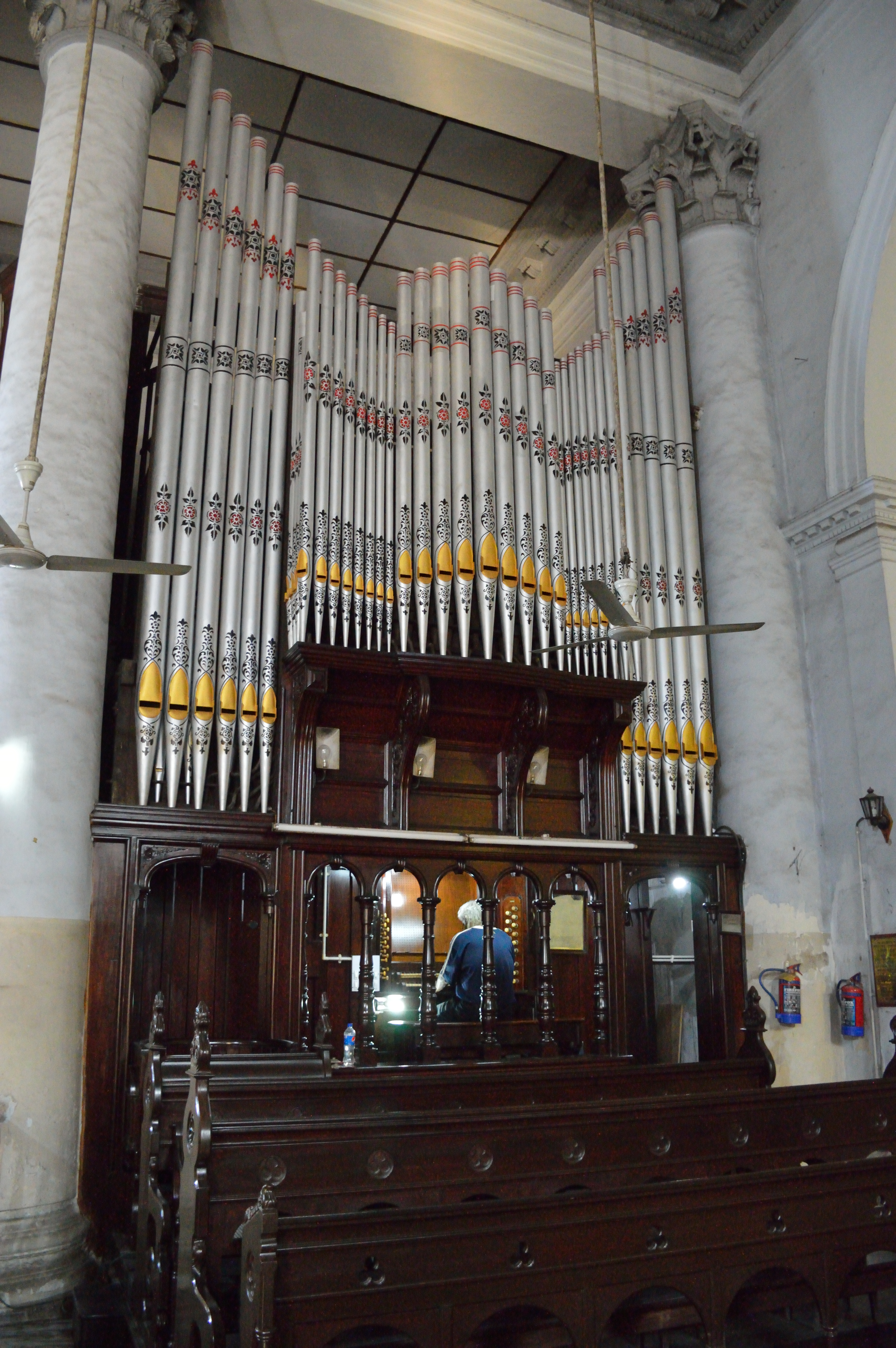 Photographed in Kolkata.